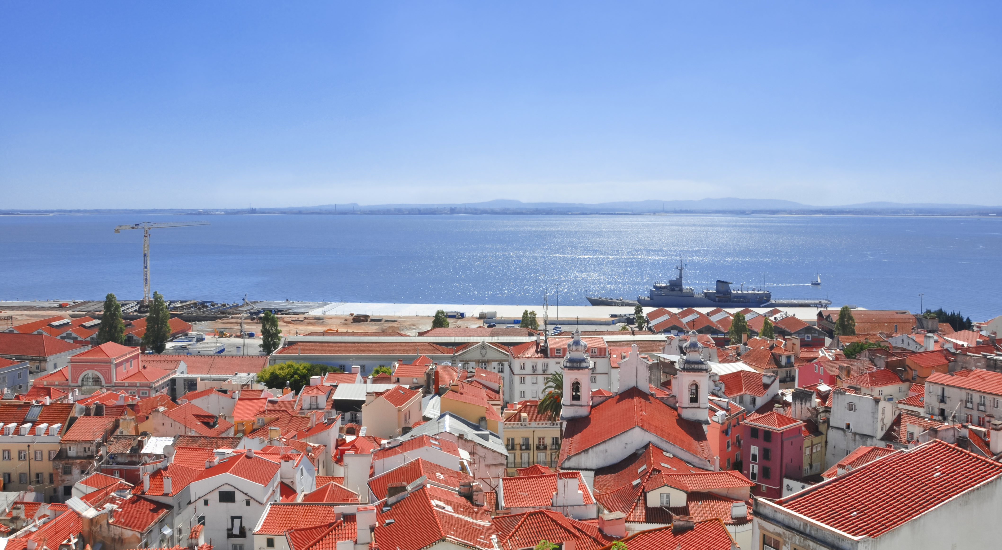 Lisbon, morning view of Tagus River and Alfama district from Sta. Luzia Belvedere.